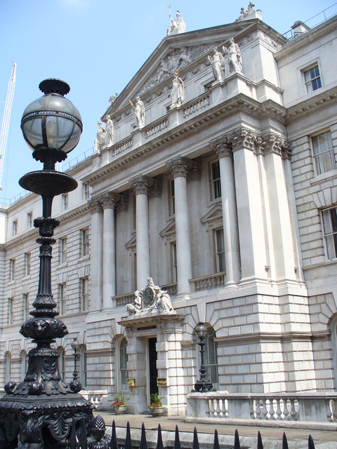 Somerset House, West Front This former palace once held the Registrar General's office. Now it is an arts centre. It is built in classical style, with Corinthian columns.